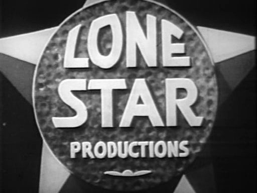 Snapshot from Riders of Destiny (1933), showing logo of Lone Star Production company created by Paul Malvern.